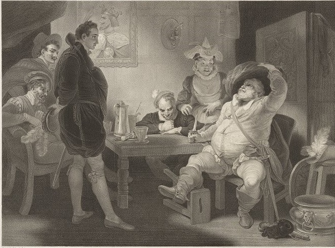 "Henry_IV_part1_act_II_scene_4" for Boydell Shakespeare Gallery